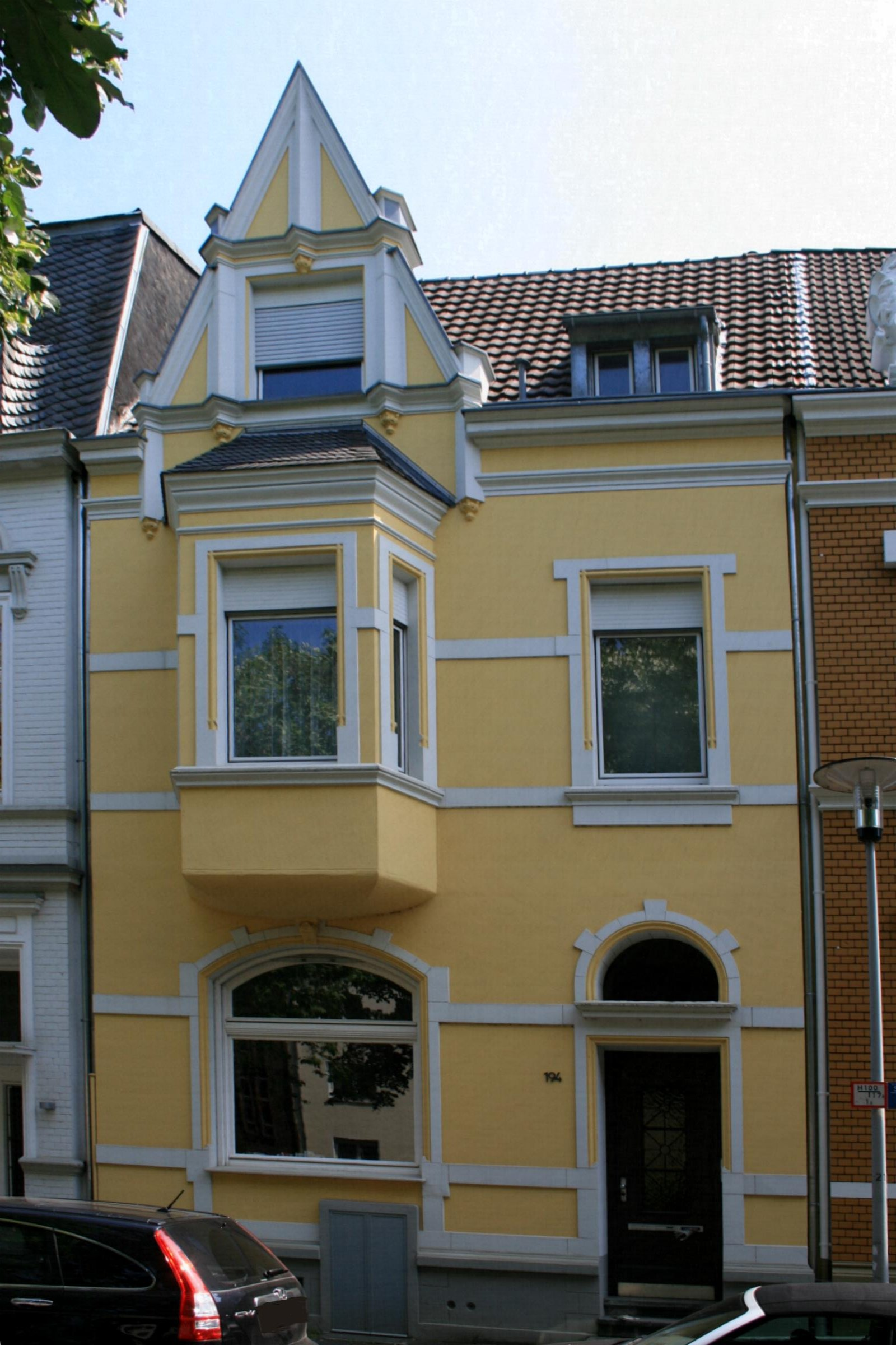 Cultural heritage monument No. B 102 in Mönchengladbach